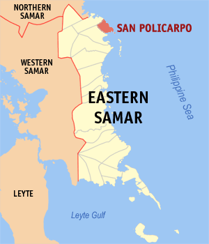 Map of Eastern Samar showing the location of San Policarpio